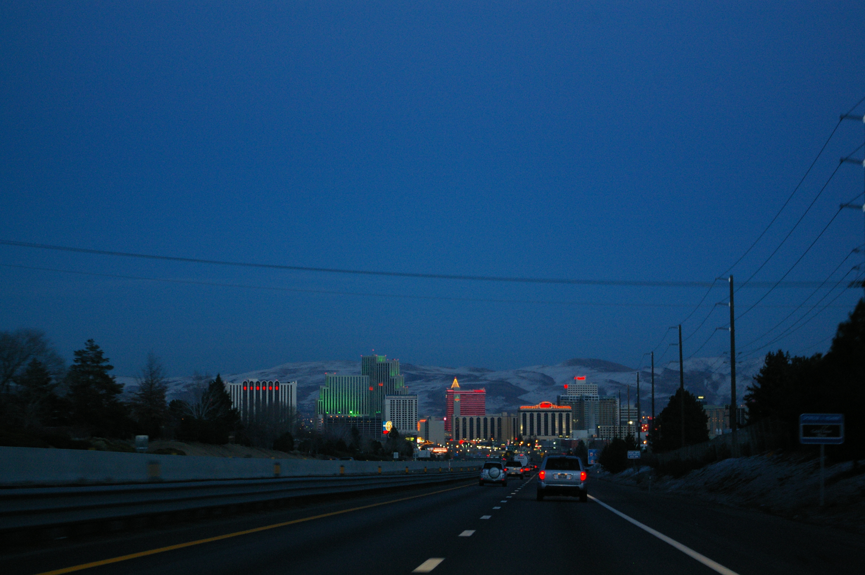 Reno, Nevada as seen from Interstate 80